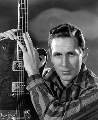 Chet Atkins with his signature guitar.